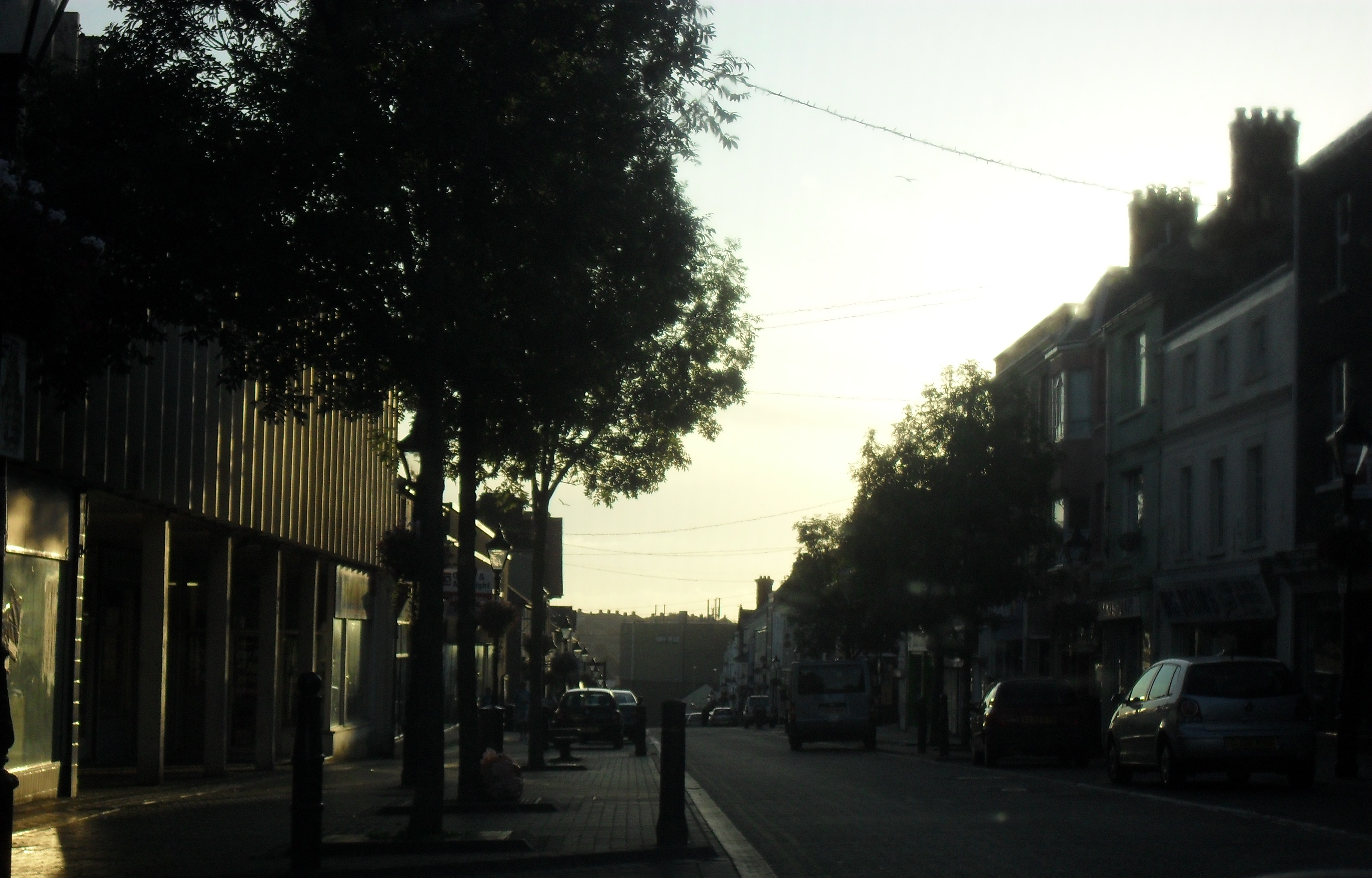 Charles Street, Milford Haven, Pembrokeshire